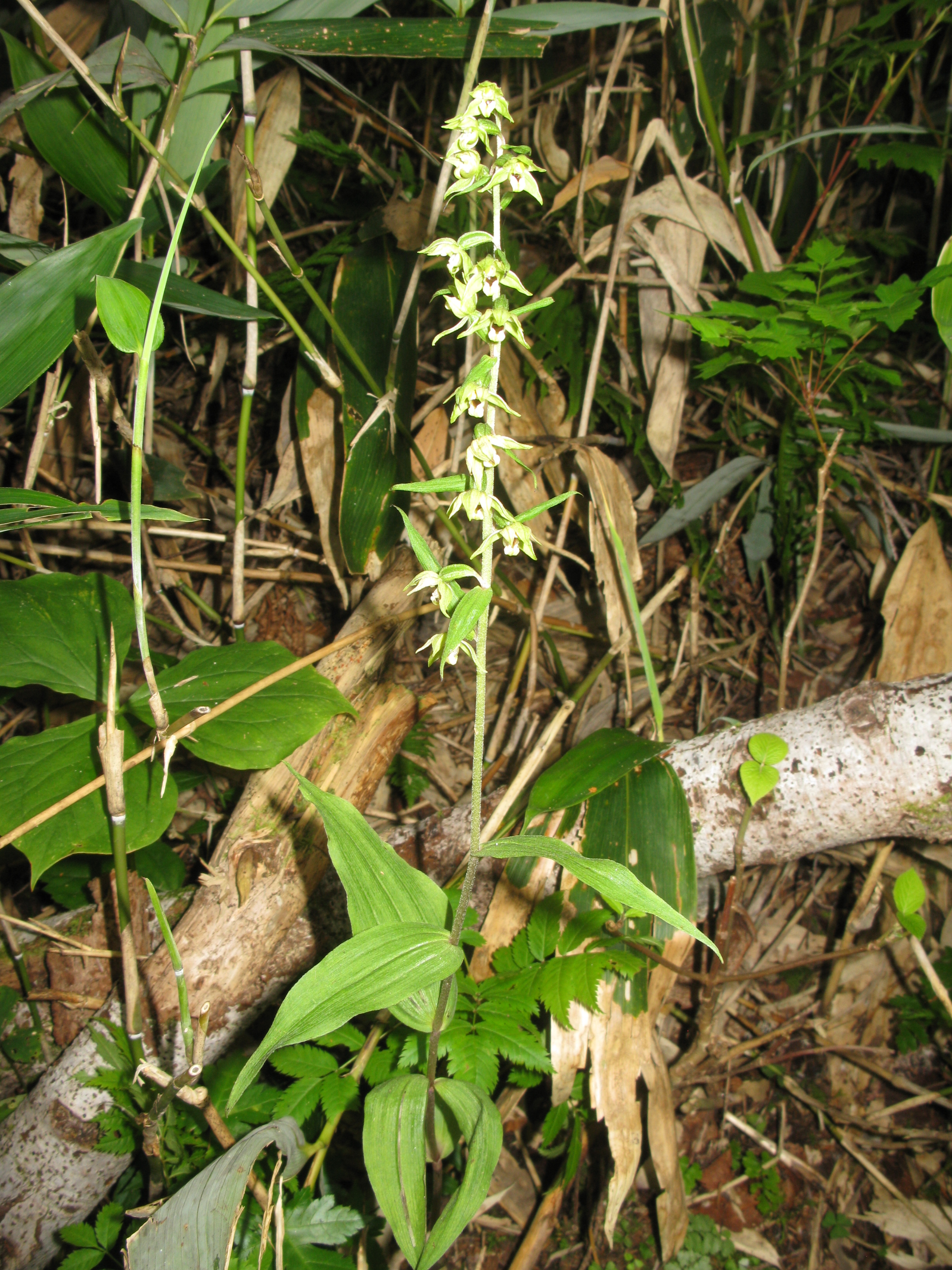 Epipactis papillosa, Oze, Fukushima pref., Japan